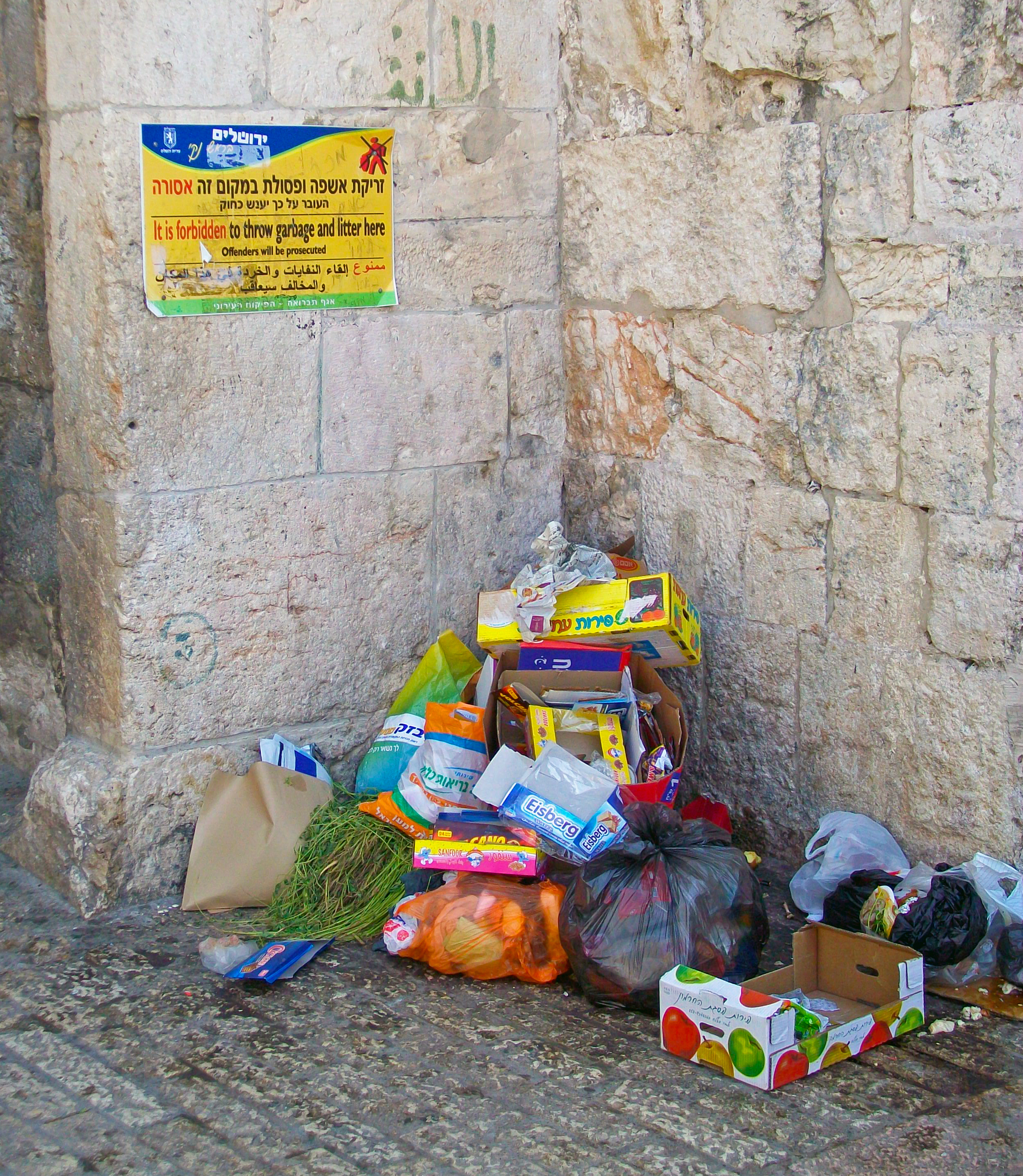 Garbage dumped on a street in the Old City of Jerusalem in clear violation of a sign prohibiting it immediately above.